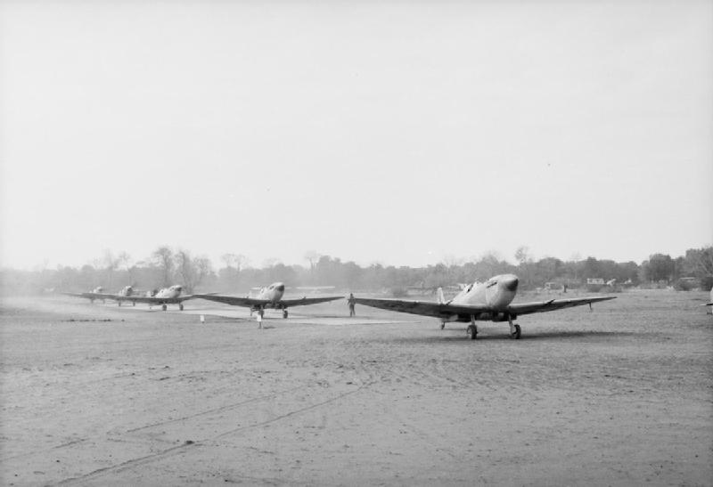 Royal Air Force- Italy, the Balkans and South East Europe, 1942-1945. Operation SHINGLE: the Allied landings at Anzio, Italy. Supermarine Spitfire Mark IXs of No. 324 Wing RAF taxi to the runway at Lago landing ground, near Castel Volturno, for a patrol over the Anzio beach-head.